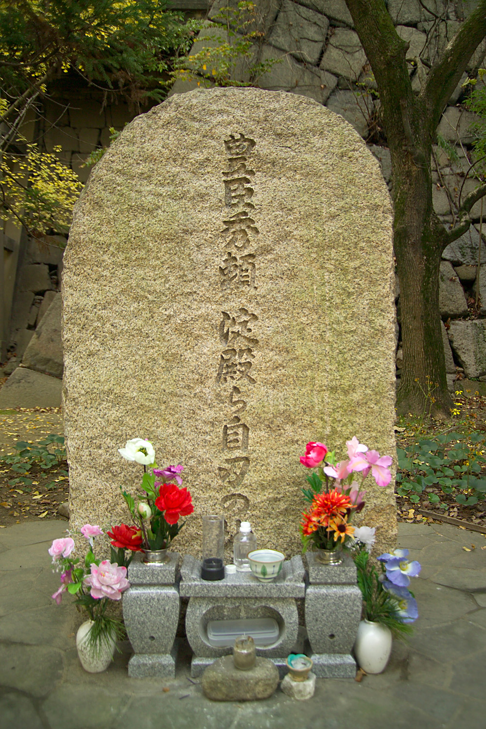 This monument marks the site where Toyotomi Hideyori (age 23) and his mother Yodo-Dono (49) took their own lives on June 4, 1615, at Osaka Castle in Osaka, Osaka Prefecture, Japan. I took this photo and contribute my rights in the file to the public domain; individuals and organizations retain rights to images in it.